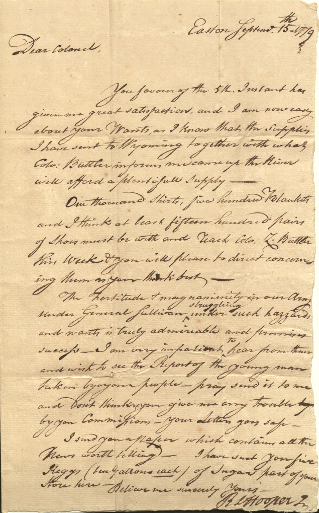 Correspondence from Robert L. Hooper, Jr. to Shreve, on September 15, 1779. Sent from Easton.